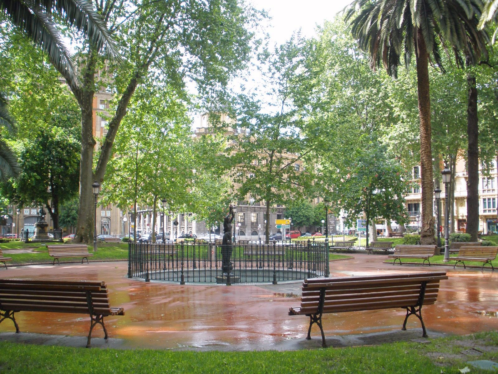 Jardines de Albia, en Abando, Bilbao